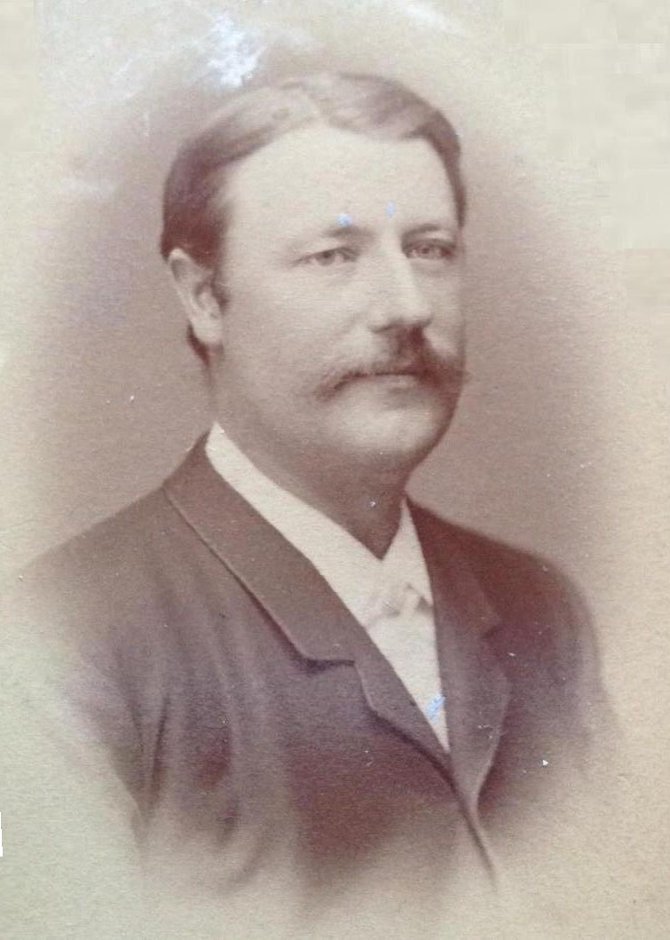 West Aros Cathedral organist Carl Johan Bolander (1854-1903) father of Bishop Nils Bolander and extramarital son of King Carl XV of Sweden